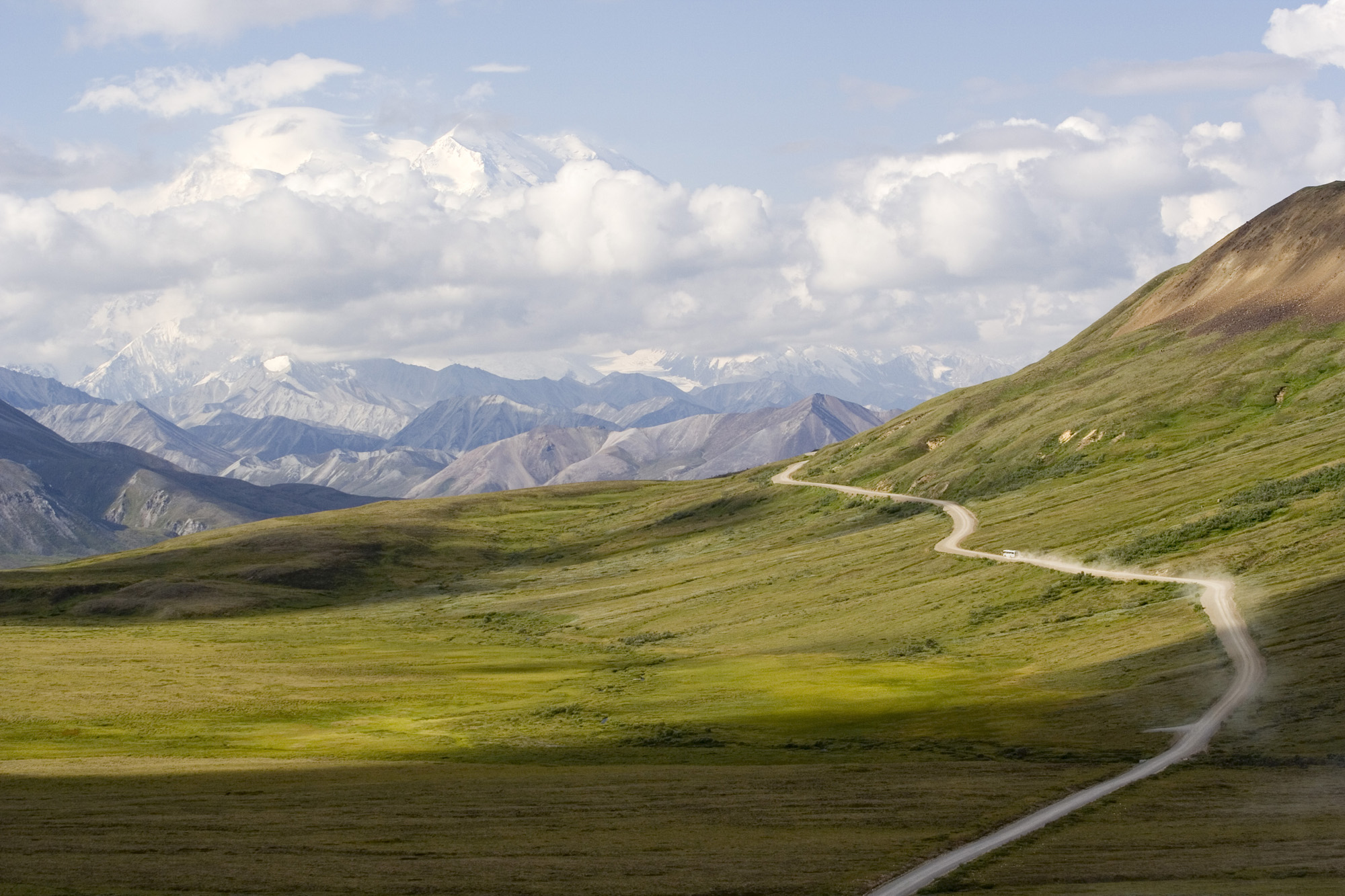 Road to Mount McKinley in Denali National Park, Alaska USA.